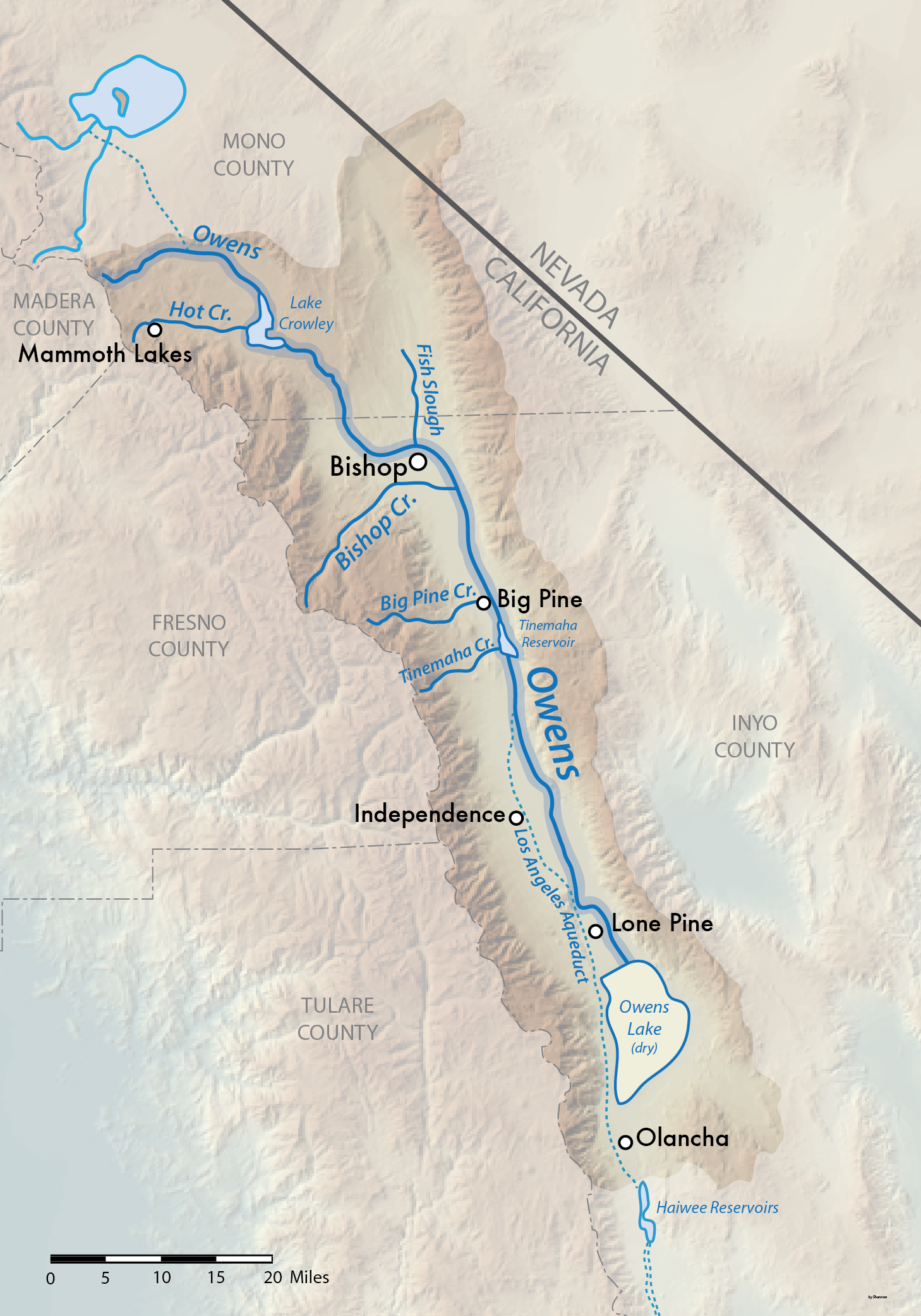 Map of the Owens Lake/River watershed in eastern California, USA. Shaded relief from US Geological Survey data. Includes LA Aqueduct and Mono Basin Extension, shown by dotted lines.